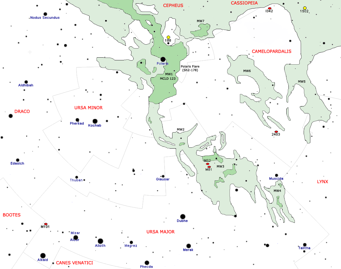 Map of the Integrated Flux Nebulae.